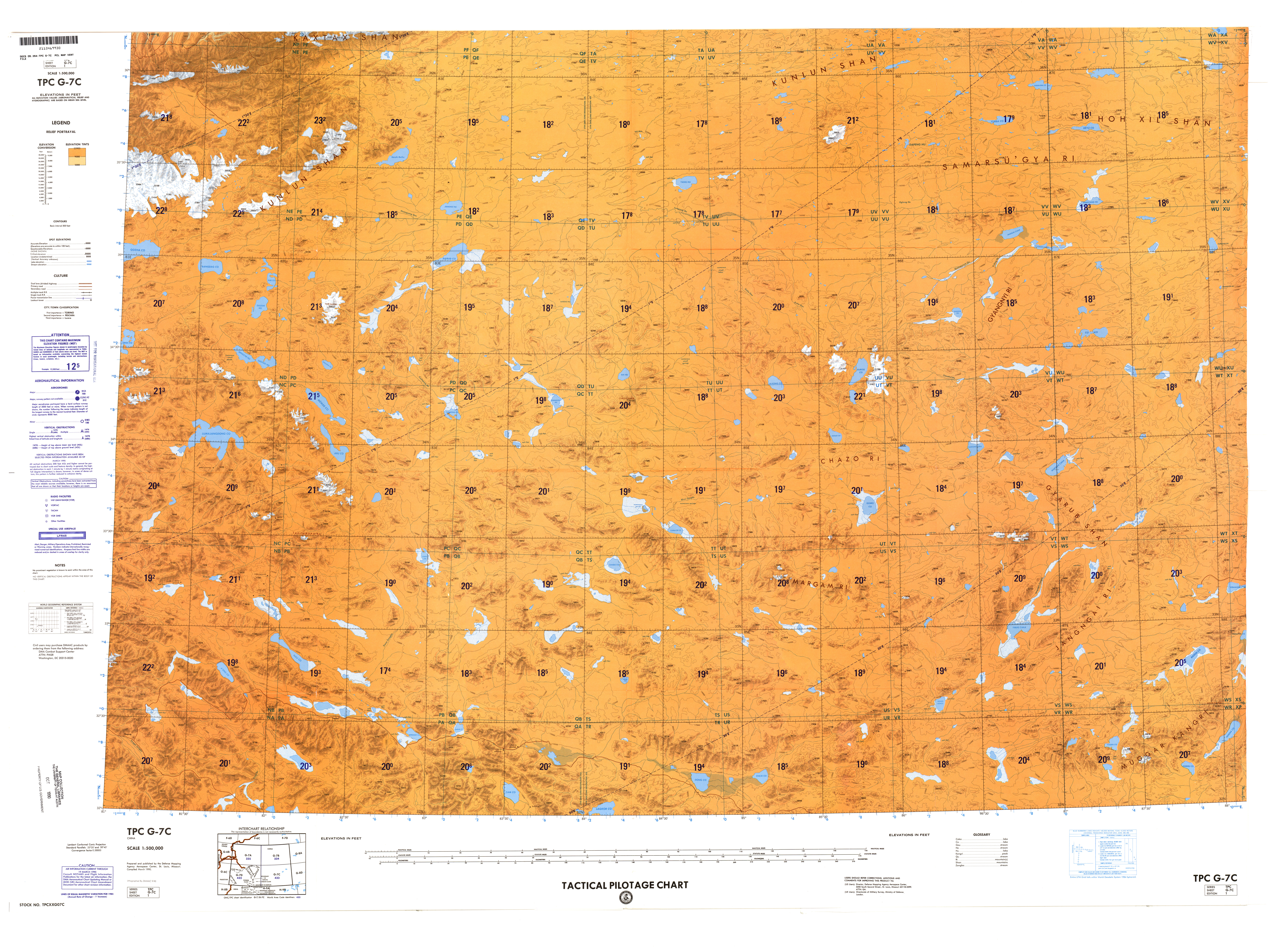 Tactical Pilotage Chart Series - World 1:500,000 Scale